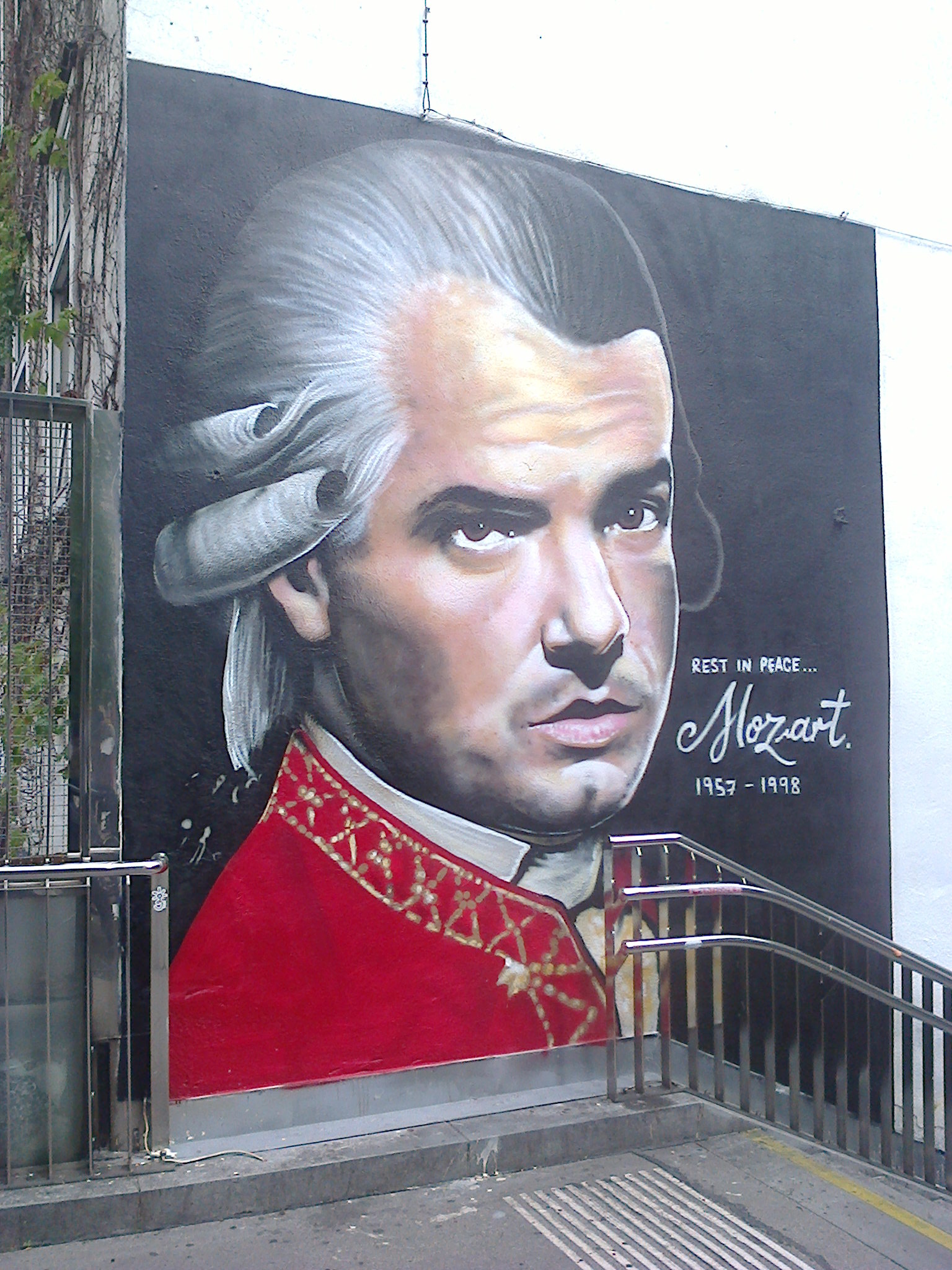 Falco / Mozart Graffito